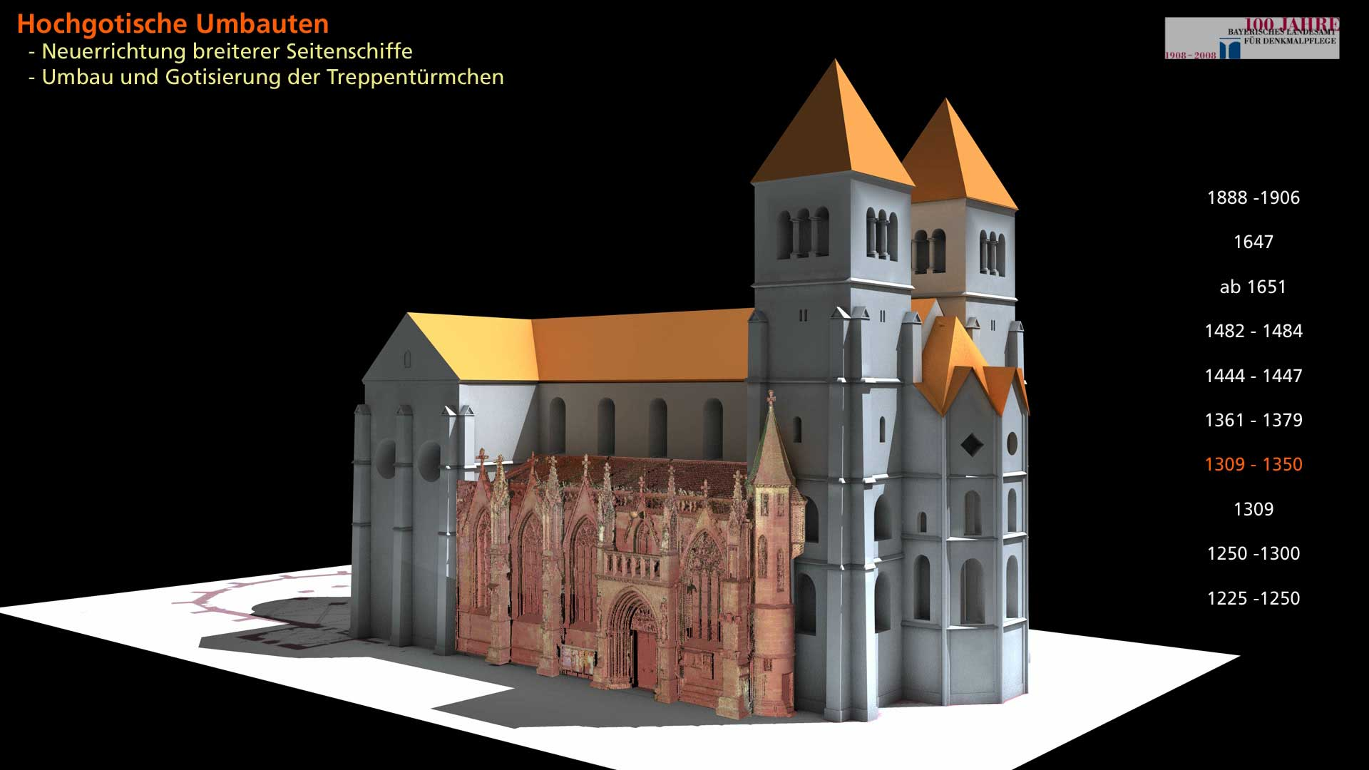 Historical Restoration of the early Gothic-period Saint Sebald Church, Nuremberg. This screenshot of a 3D digital historic restoration shows the Gothic Side Aisle enhancements build between 1309 and 1350. This view is a combination of 3D digital historic restoration and a point cloud from the laser scan of the current condition of the Church, seen here in reddish-brown.